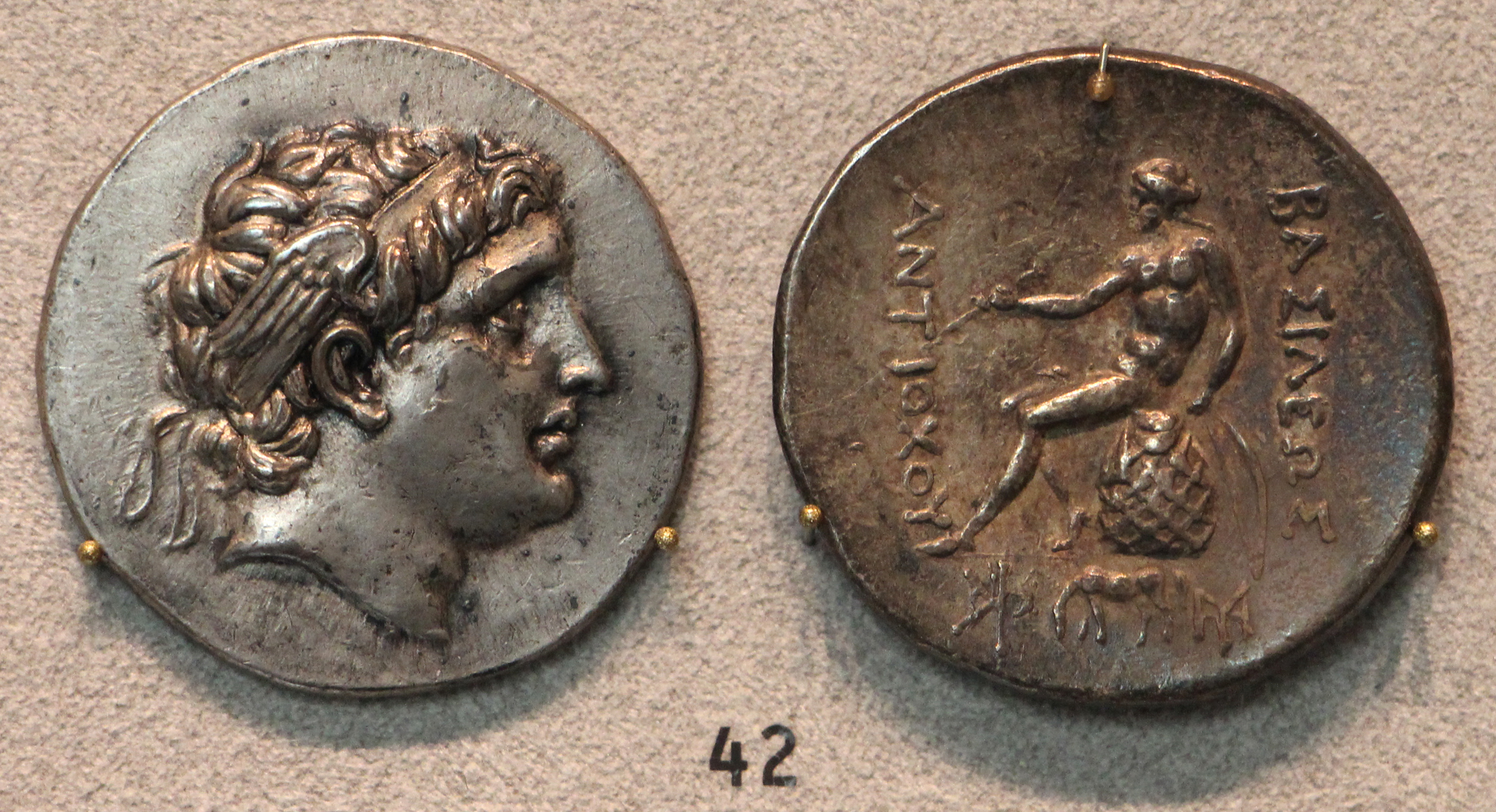 Ancient Greek coins in the Altes Museum Berlin